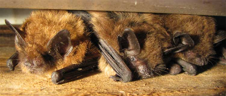 A few Big Brown Bats sheltering between a house's gutter and eave facia